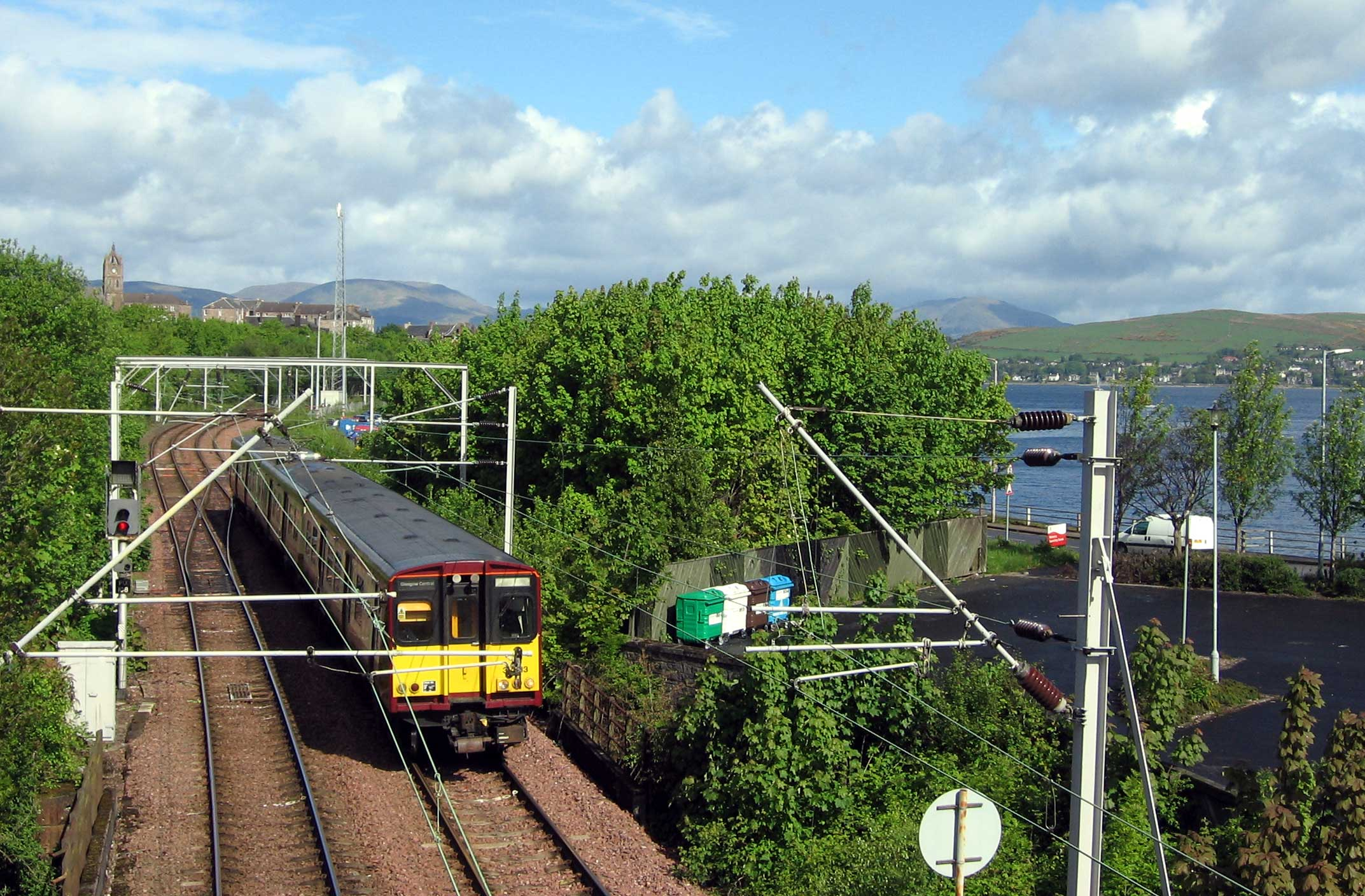 A train on the Inverclyde Line just out of Gourock railway station at the Gourock pierhead, with the Firth of Clyde on the right.